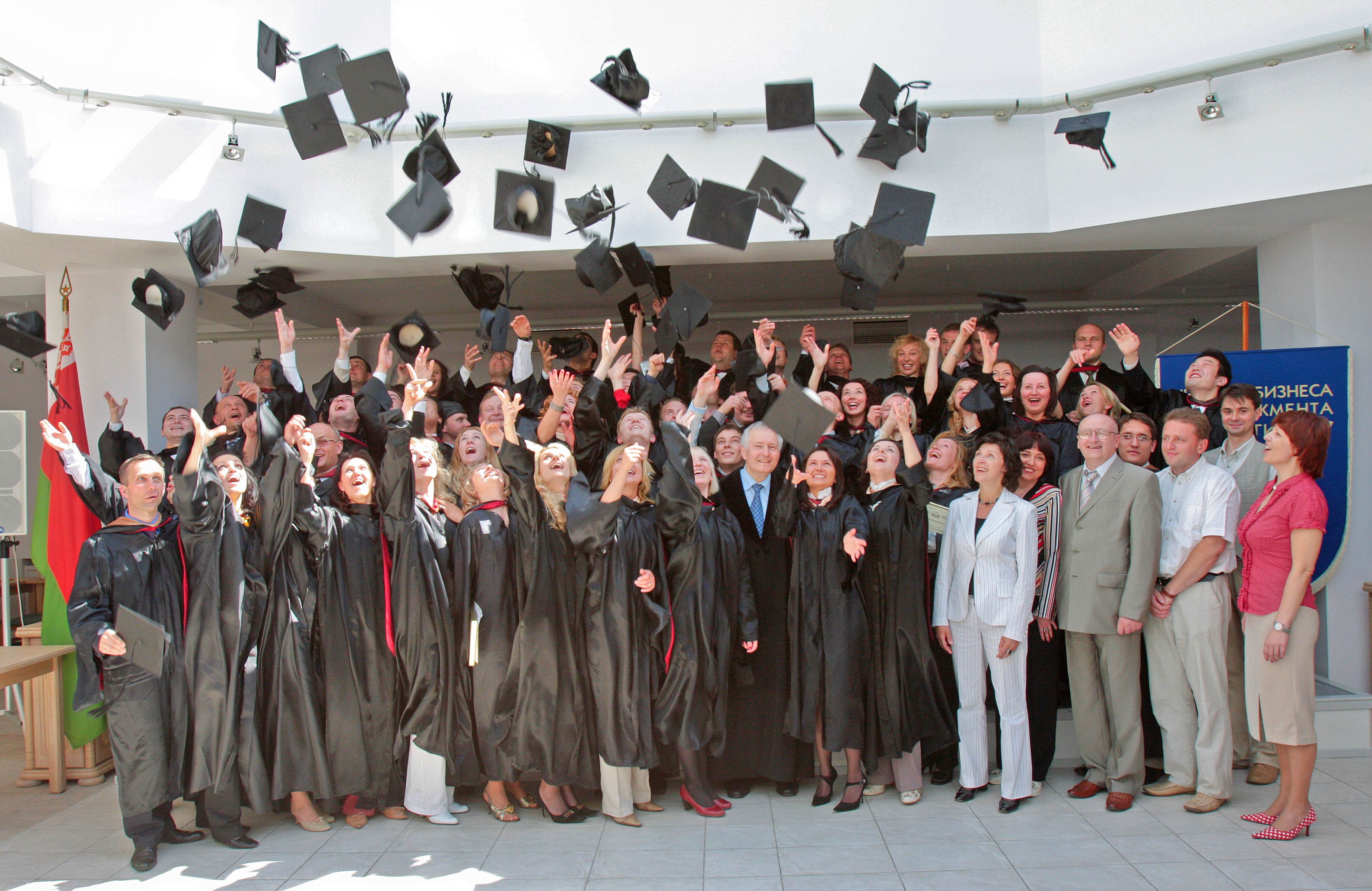 The graduation ceremony includes the official speech of the best graduate of the year, the singing of the hymn Gaudeamus, and the throwing of caps into the air.